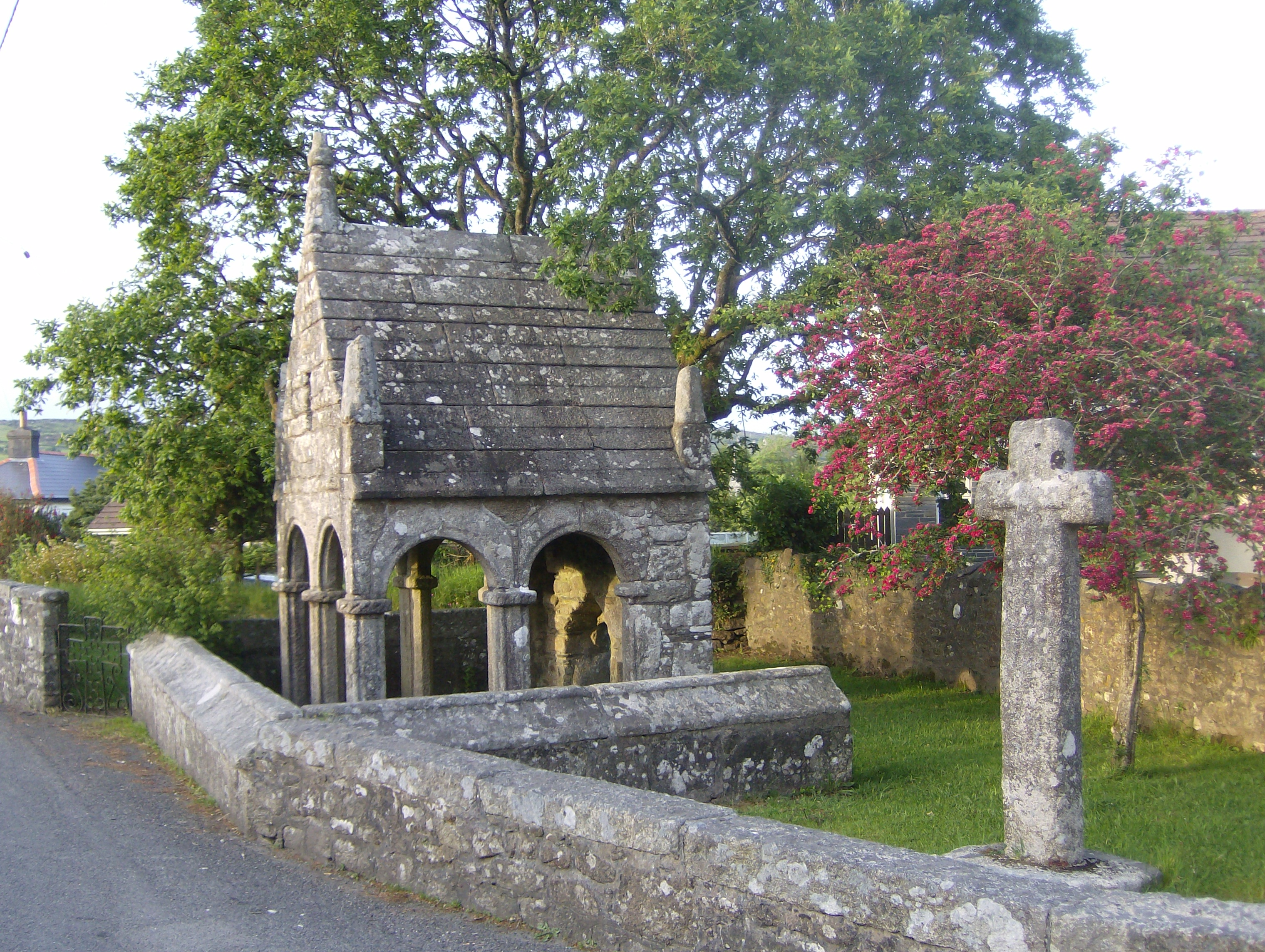 The grade I listed building in the village of St. Cleer Cornwall known as The Holy Well, restored in 1864 and believed to be used as a ducking pool for the cure of rickets,epilepsy and insanity.